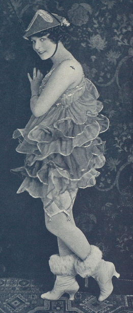 Muriel Window, from a 1916 publication. A young white woman, standing, in a ruffled costume and fur-cuffed boots, with a conical hat on her head.